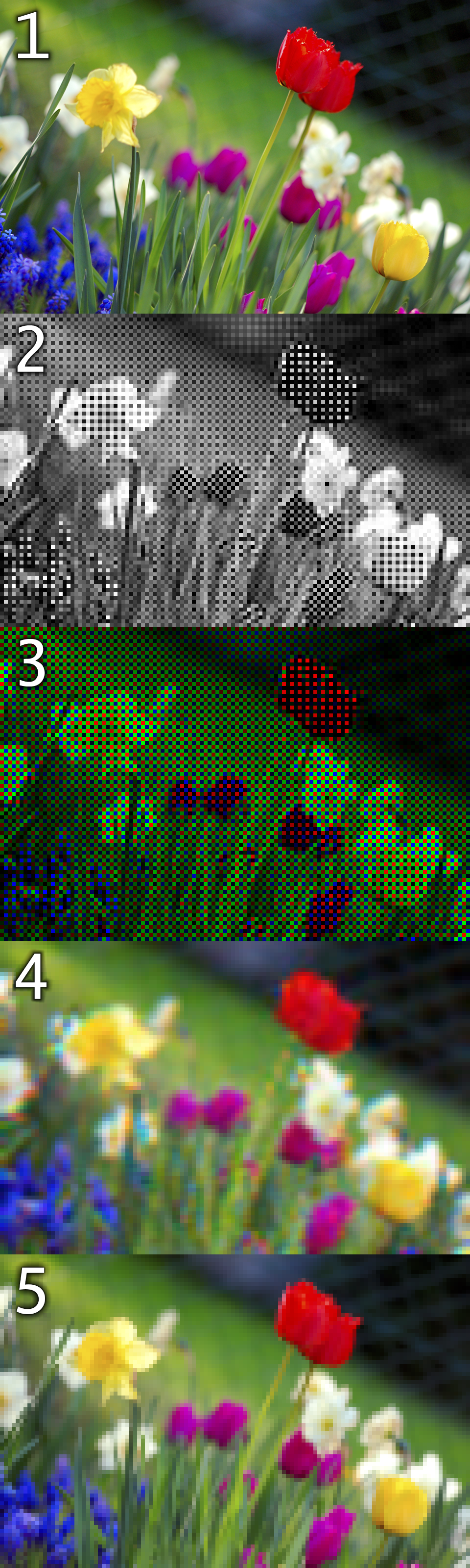 1. The original scene of a garden with some tulips and narcissus. 2. The response of a 120-pixel × 80-pixel sensor with a Bayer filter in a digital camera. 3. The response colour-coded with the Bayer filter colours. 4. The reconstructed image after interpolating the missing colour information. 5. Full RGB version of 1, downscaled to 120x80 (then upscaled using nearest neighbor).